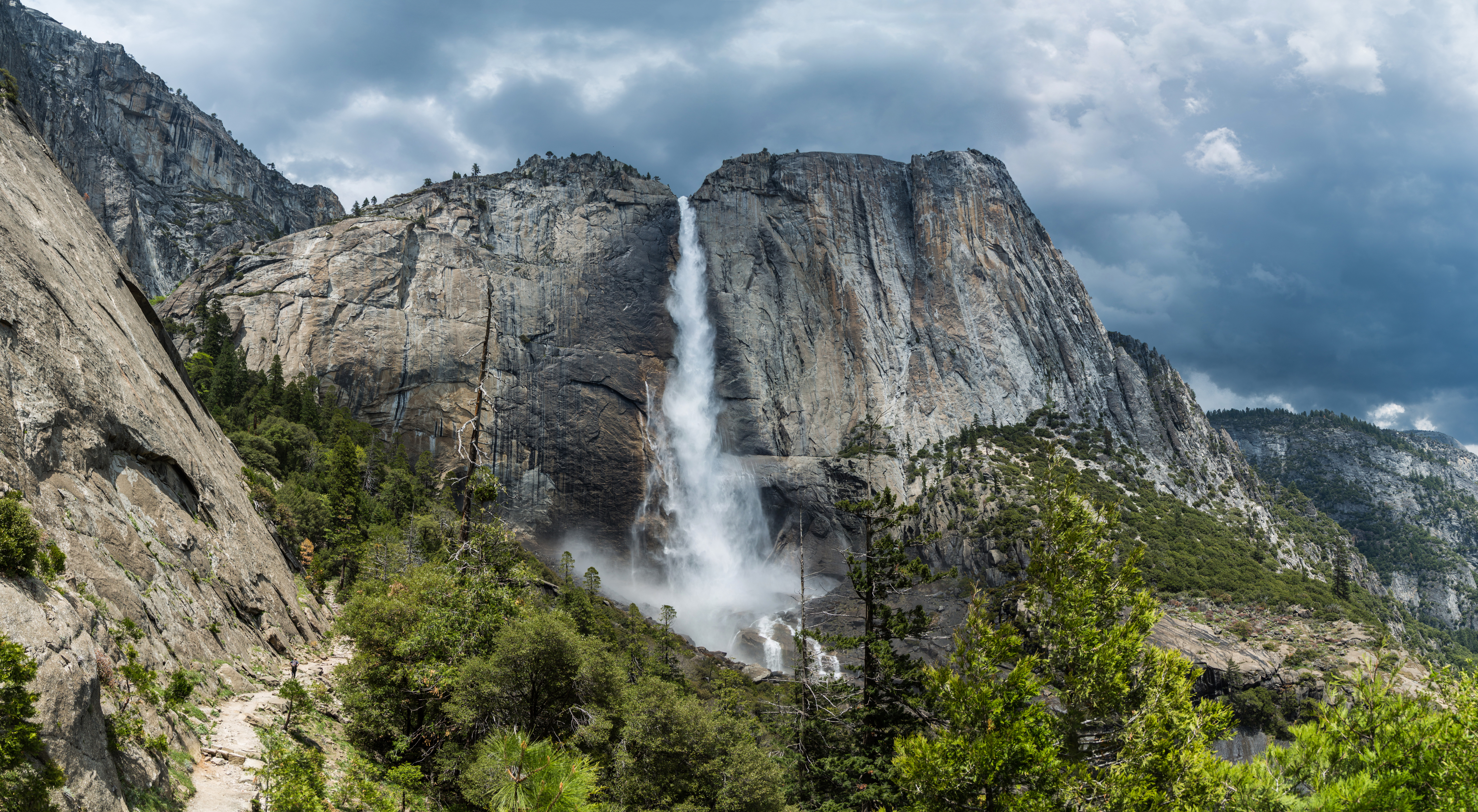 Upper Yosemite Falls as viewed from the trail leading to the top of the falls.